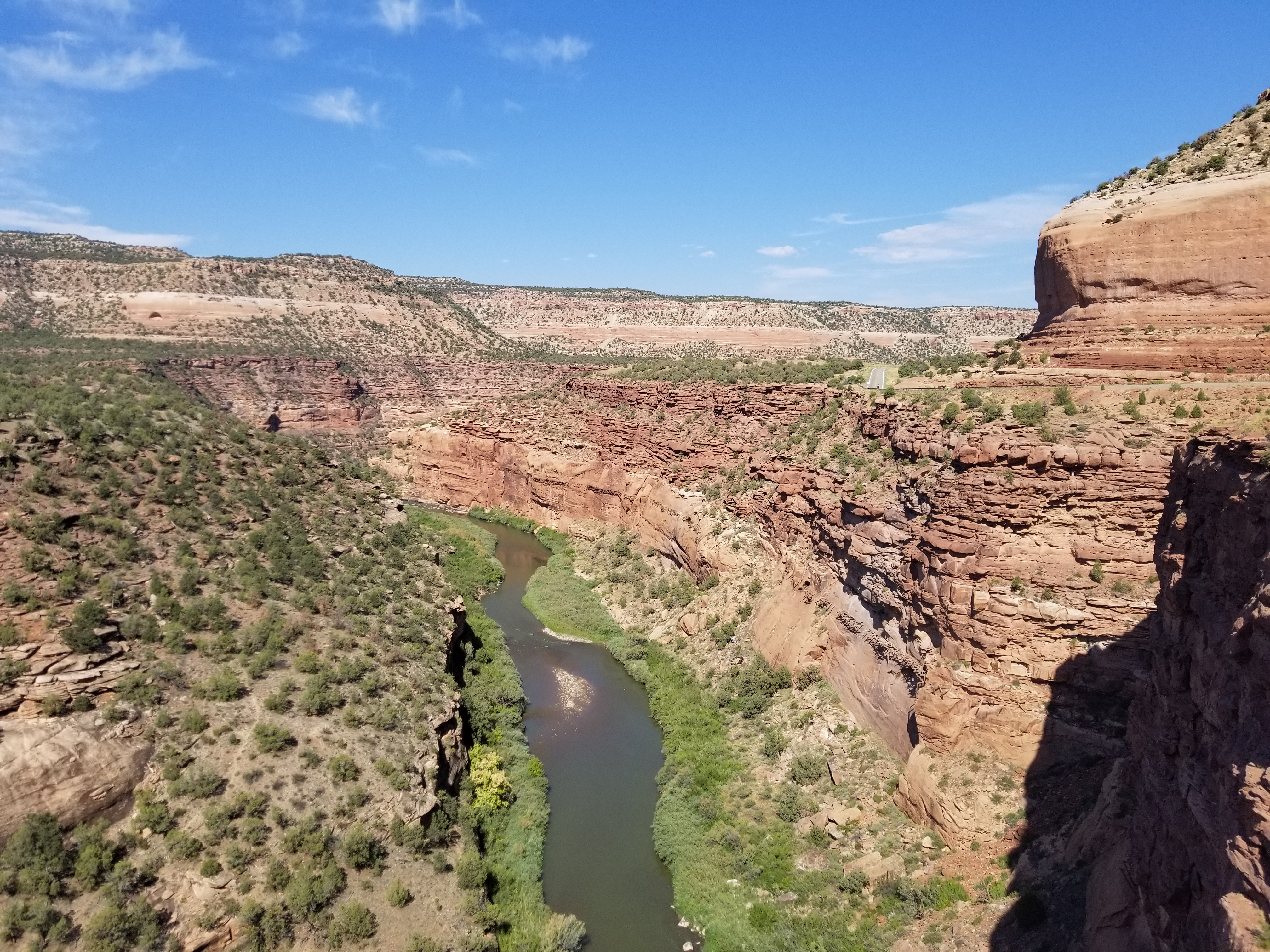 View north from the Hanging Flume overlook on Colorado State Highway 141. The Dolores River and an abandoned wooden water flume are visible.